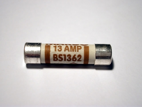 fuse